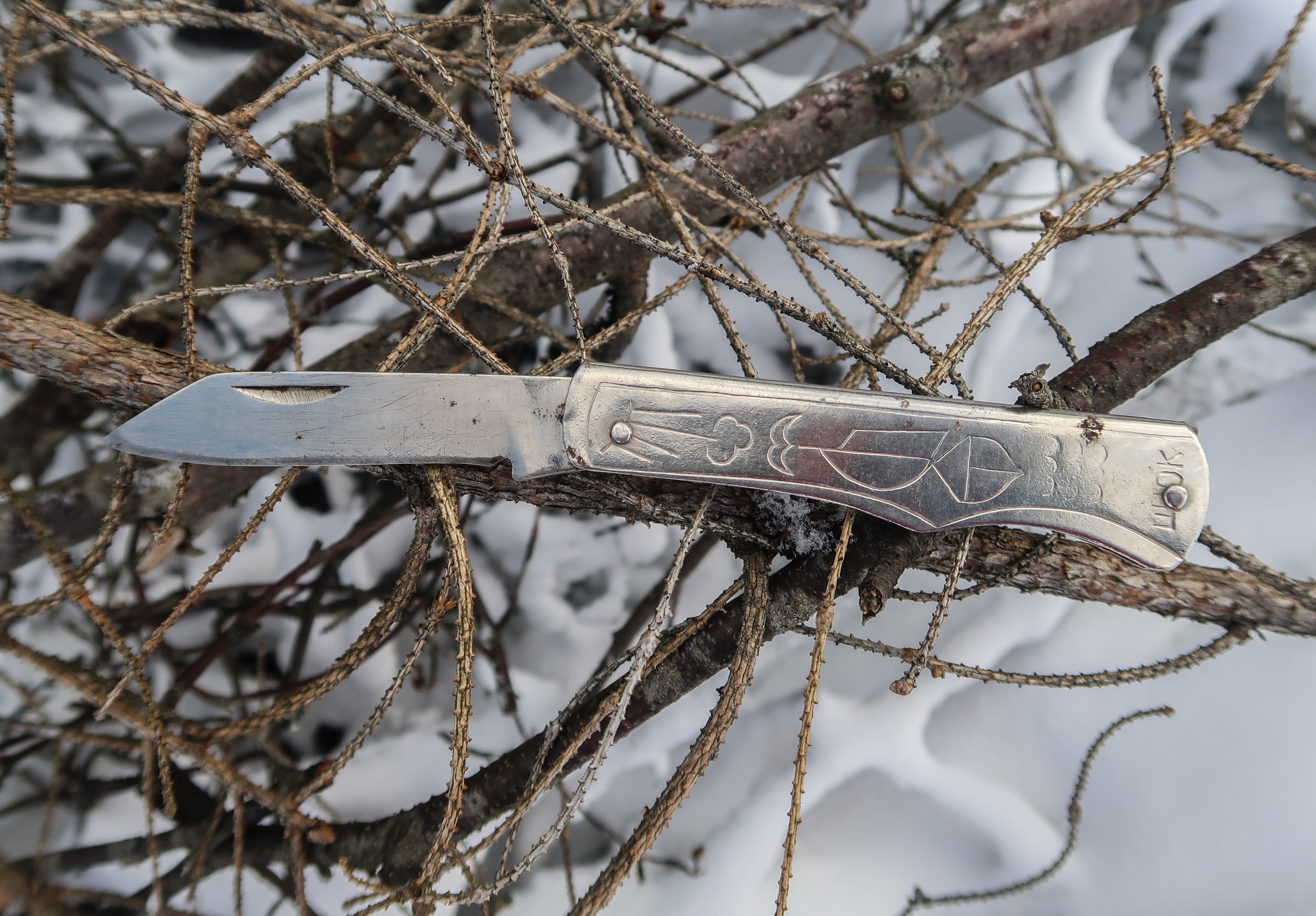 Pocket knife, made in Soviet Union.